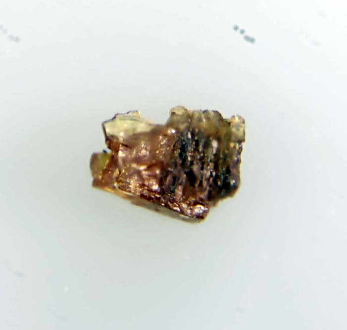 Isolated crystal of the extremely rare complex oxide mineral zimbabweite from the type and only known locality worldwide: St Anns Mine, Mwami, Karoi District, Mashonaland West, Zimbabwe. Specimen analyzed by Russian mineralogist Mikhail Murashko.